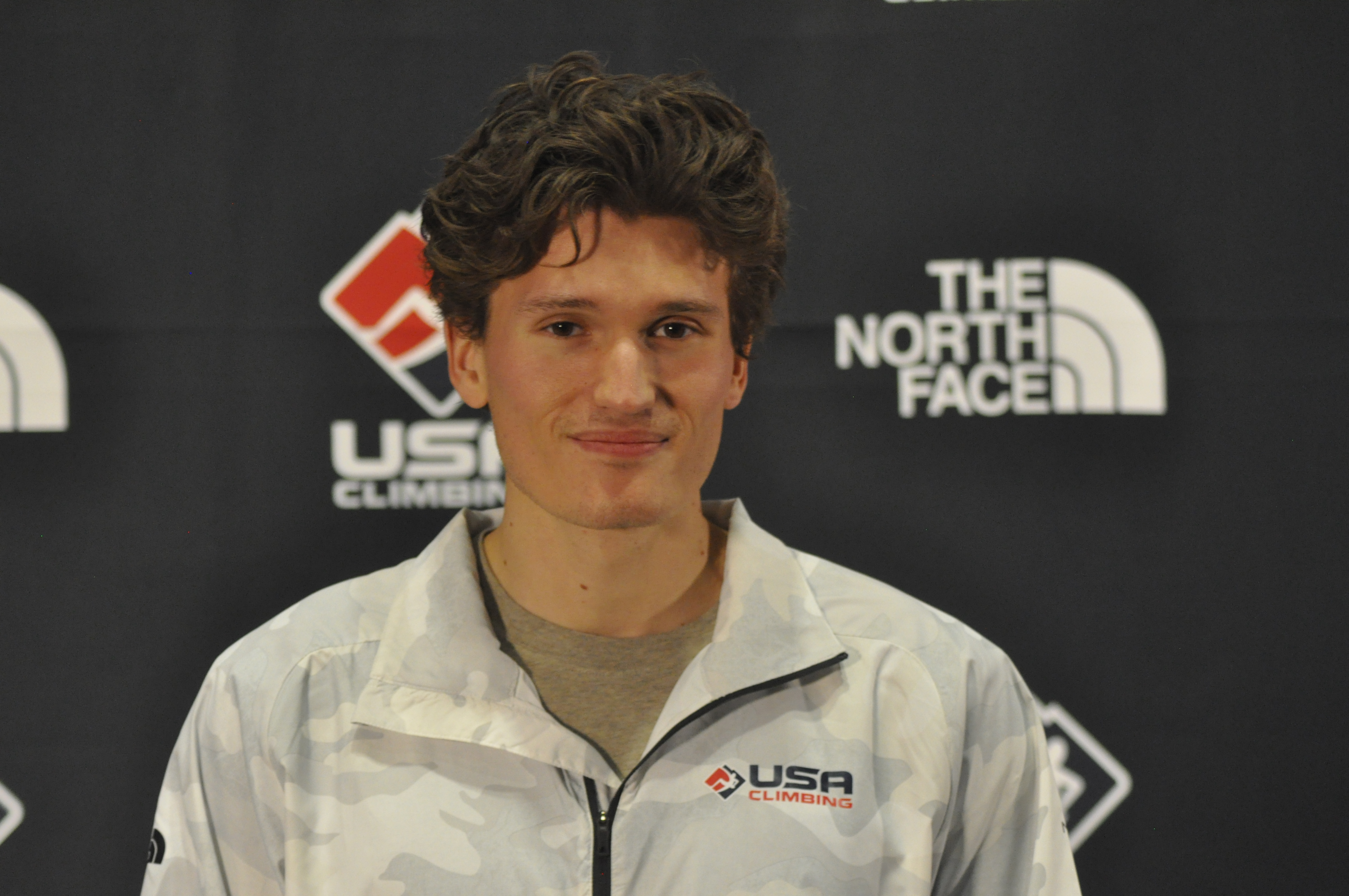 2019 Sport & Speed Open National Championships held on March 8-9, 2019 in Sportrock climbing gym in Alexandria, Virginia. Nathan Coleman during award ceremony.